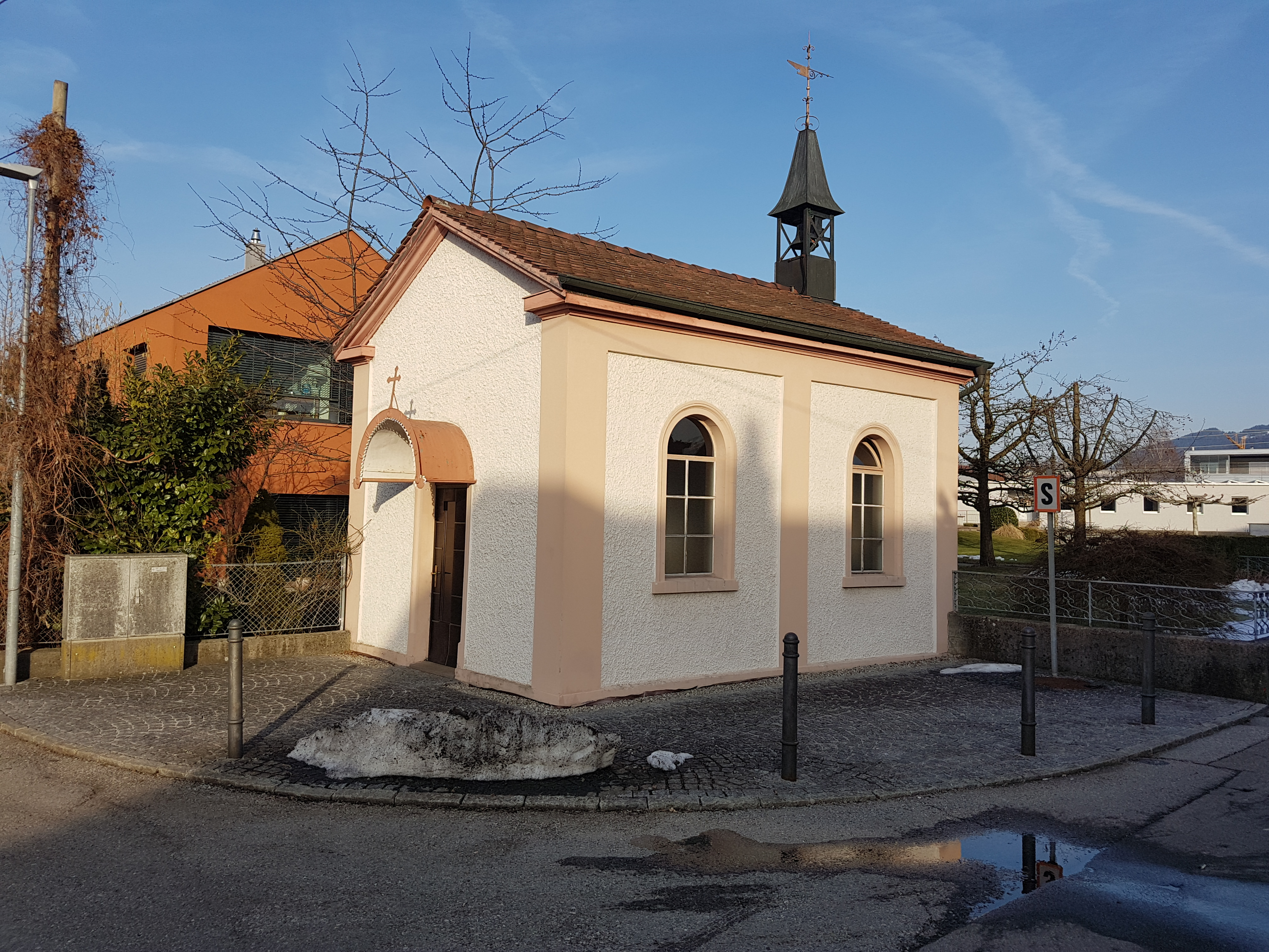 Lourdes Chapel in Lauterach, Vorarlberg, Austria.